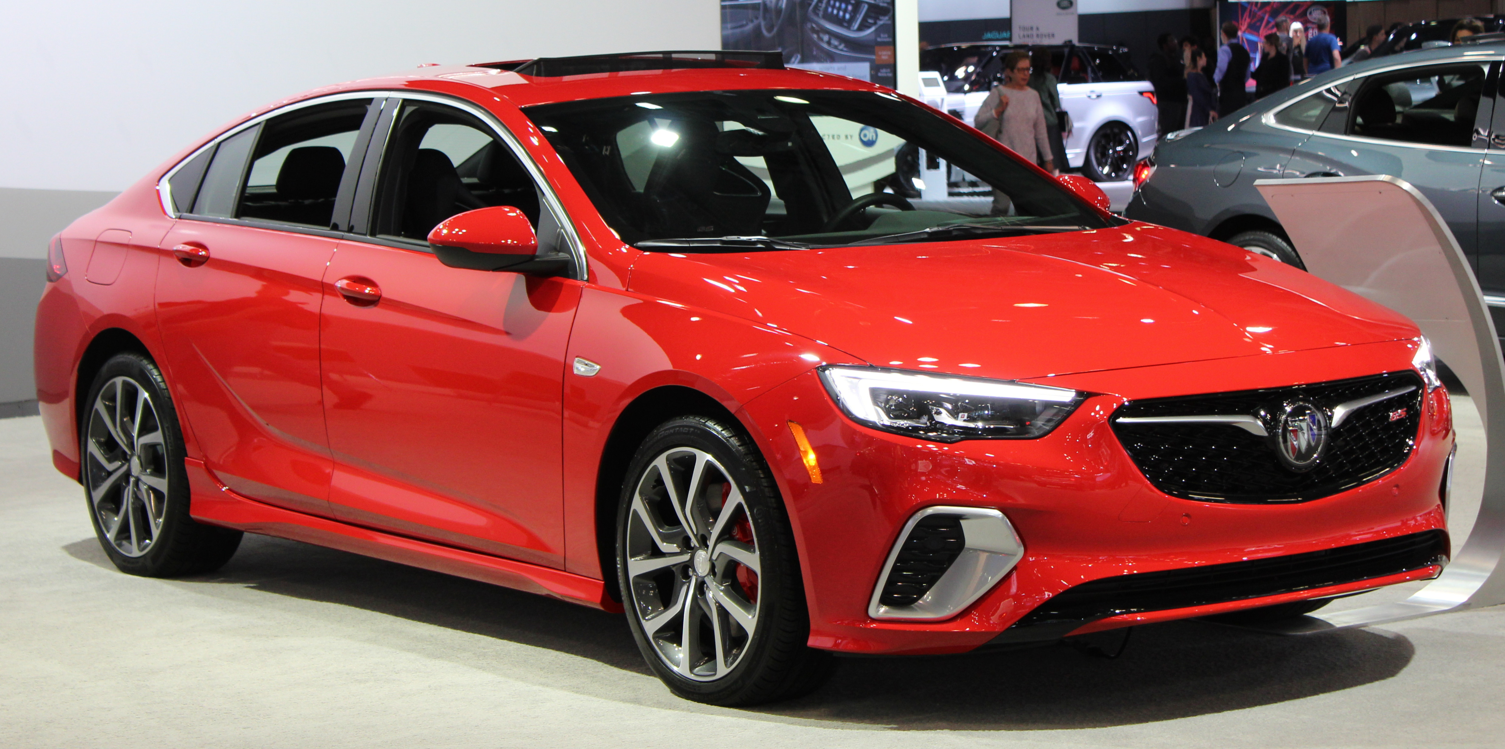 A 2019 Buick Regal GS sedan photographed during the 2019 New York International Auto Show, in Hudson Yards, Manhattan, NYC